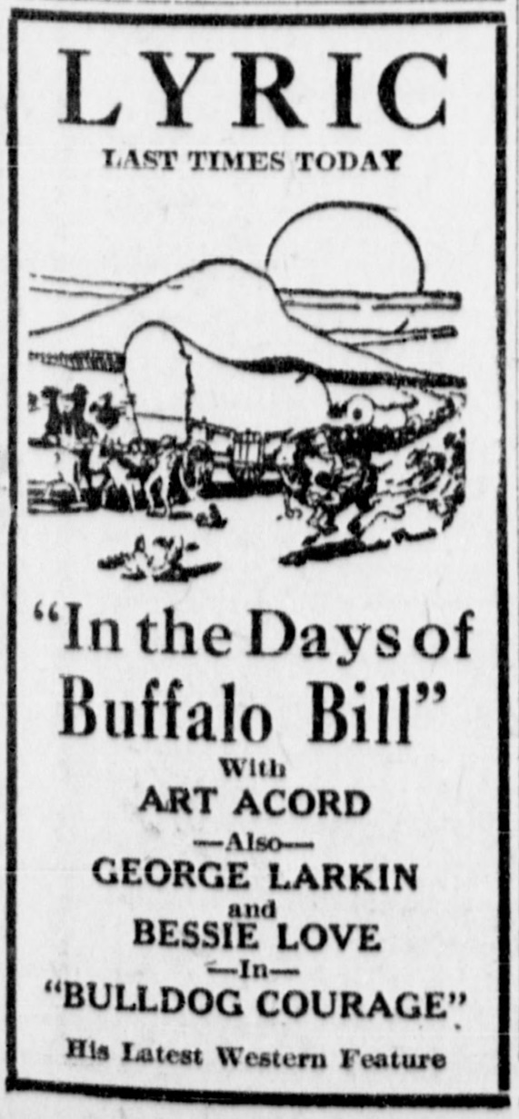 Bulldog Courage in a double showing with "In the Days of Buffalo Bill"